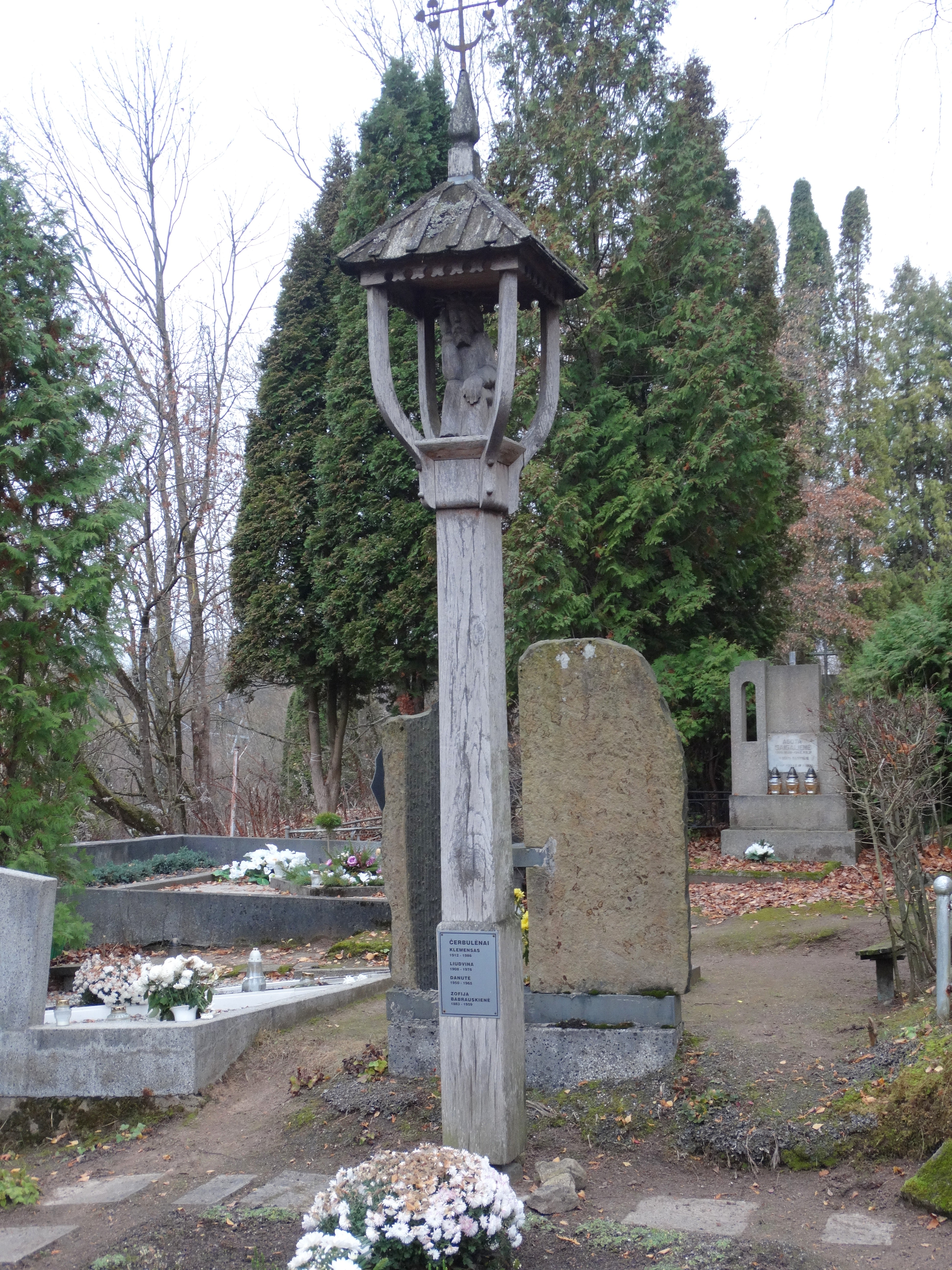 Tomb of Klemensas Čerbulėnas, Eiguliai cemetery, Lithuania